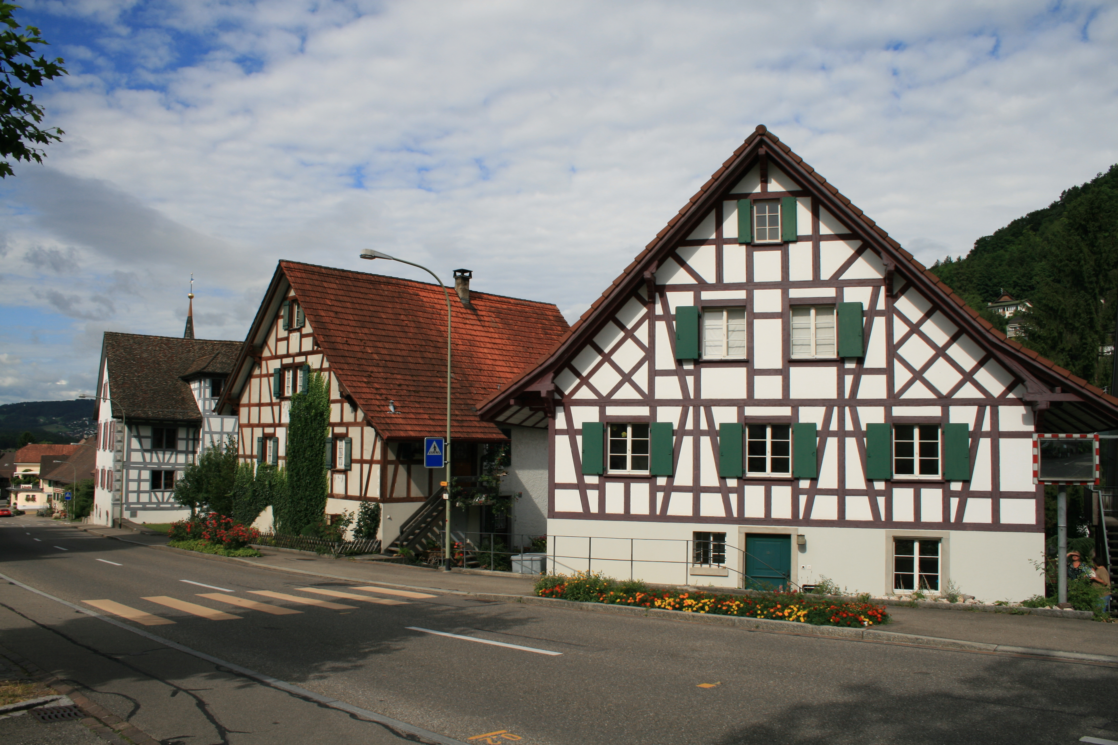 Houses in Weiningen ZH